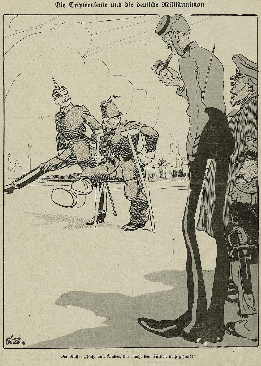 The Sick man of Europe is trained by a German instructor in January, 1914.